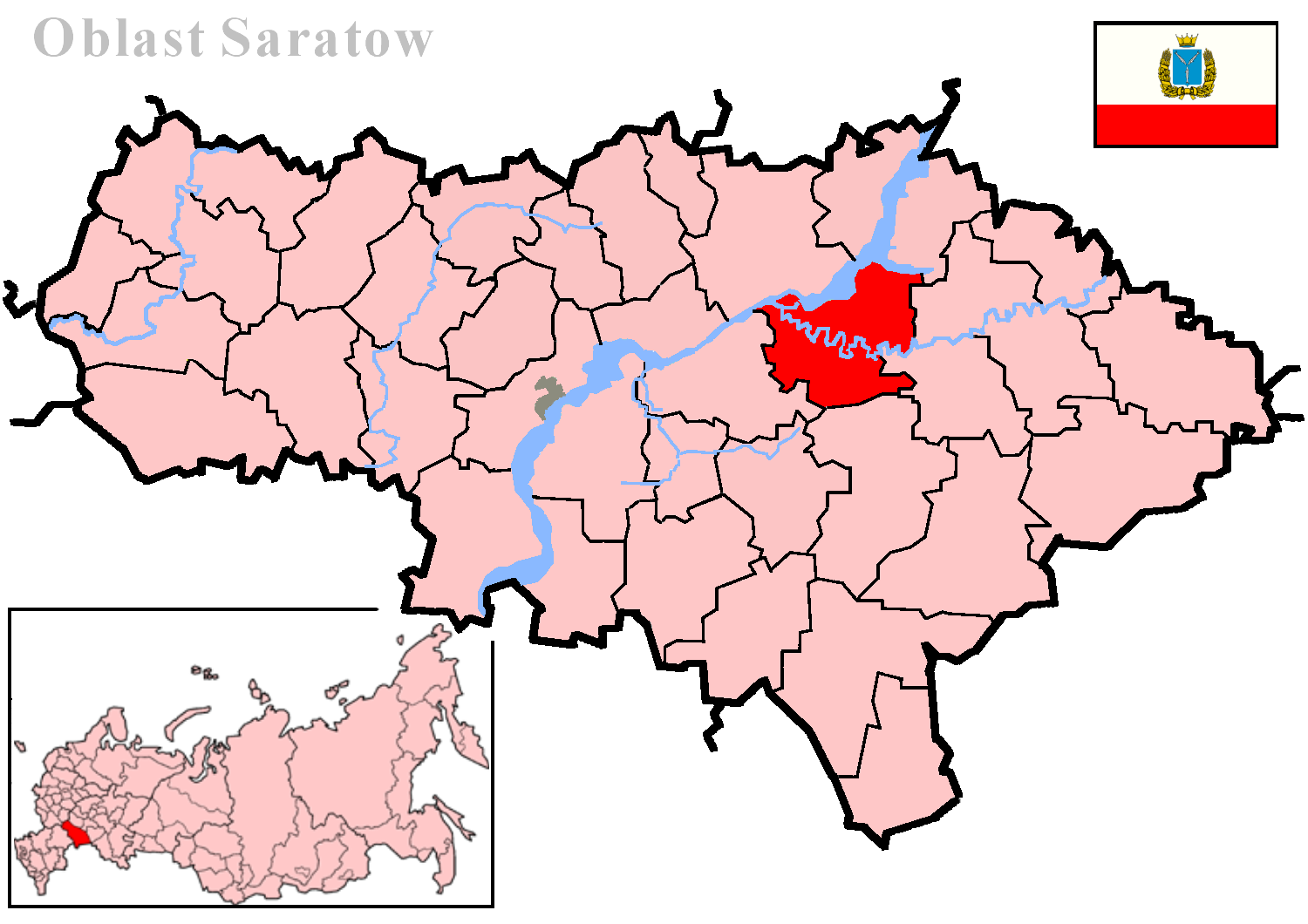 Location of Balakovsky District in the Saratov Oblast